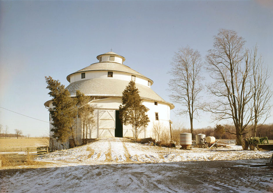 Front of the Thomas Ranck Round Barn along Fayette-Wayne County Line Road in Fayette County, Indiana, United States.